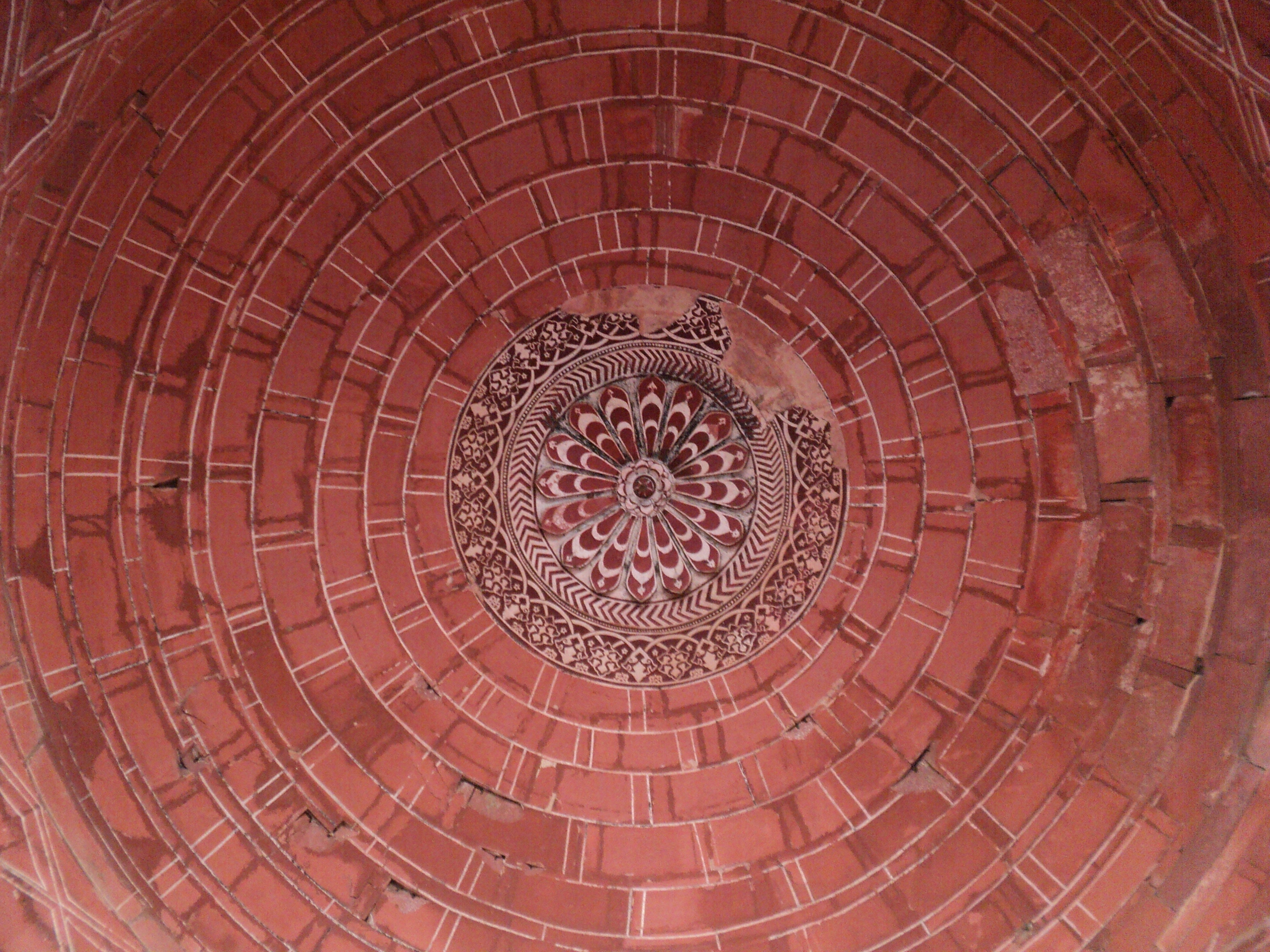 Fathepur Sikri , Agra